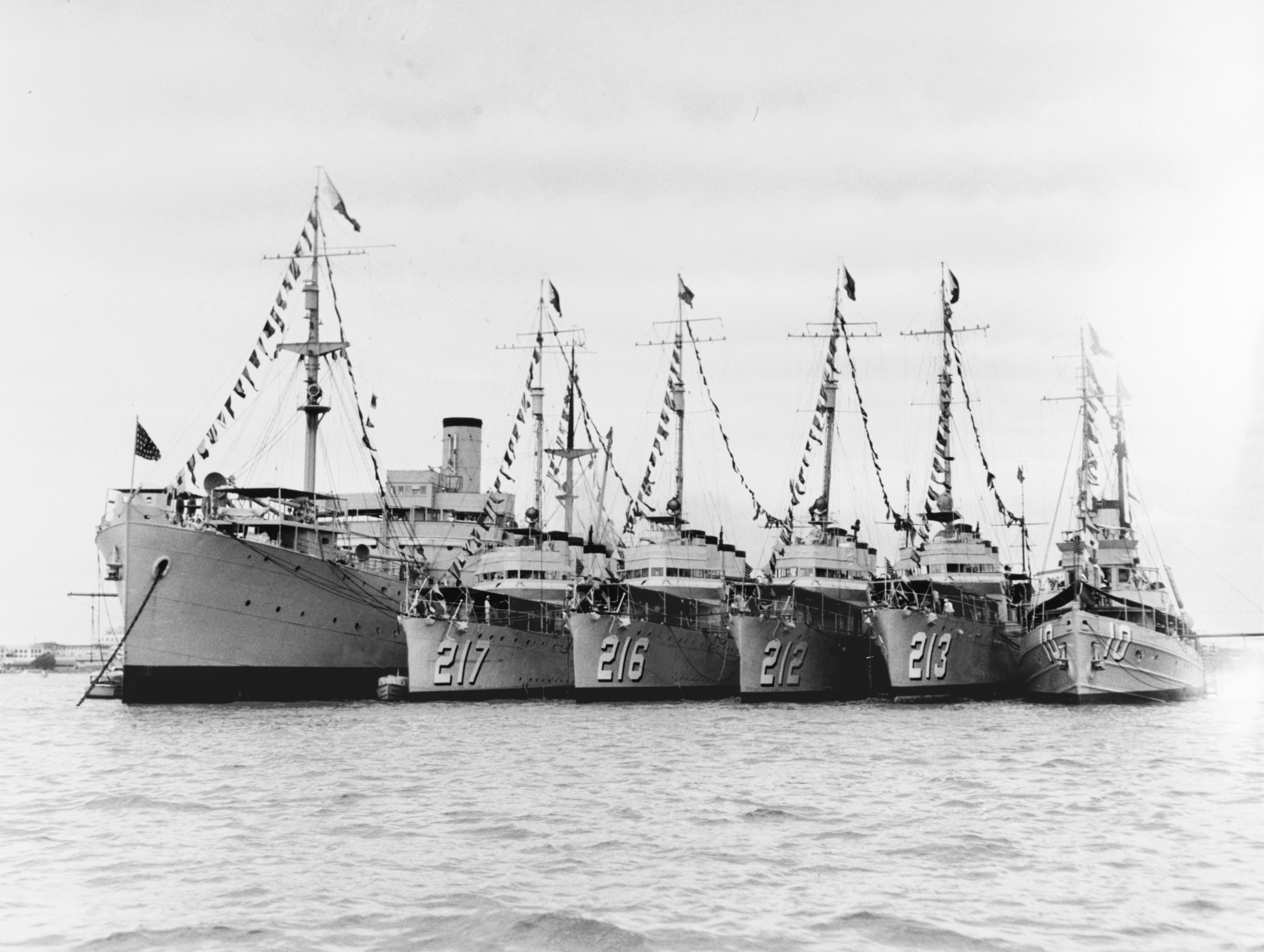 The U.S. Navy destroyer tender USS Black Hawk (AD-9) at Manila, Philippine Islands, 15 November 1935, with four destroyers and the minesweeper USS Heron (AM-10) nested alongside. The four destroyers are (from left to right): USS Whipple (DD-217), USS John D. Edwards (DD-216), USS Smith Thompson (DD-212) and USS Barker (DD-213). All ships are full dressed with flags in honour of the inauguration of the Philippine President Manuel Quezon.